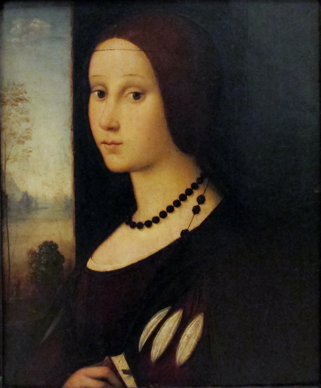 "Portrait of a young woman", the sitter is sometimes claimed to be Queen Catherine, the painting belongs to the School of Ferrara (attributed to Domenico Panetti), and mostly likely depicts Catherine's contemporary, Isabella d'Este (1474-1539).